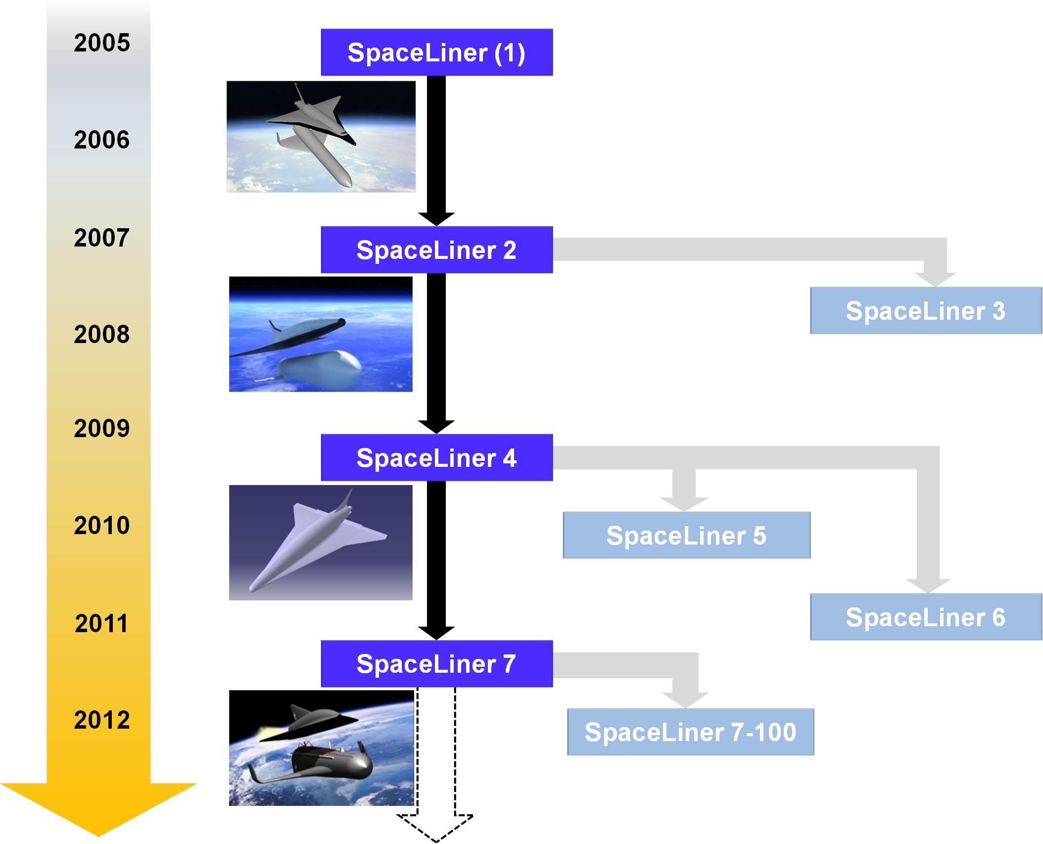 Development of the SpaceLiner Concept